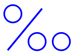 A promille sign, own work.